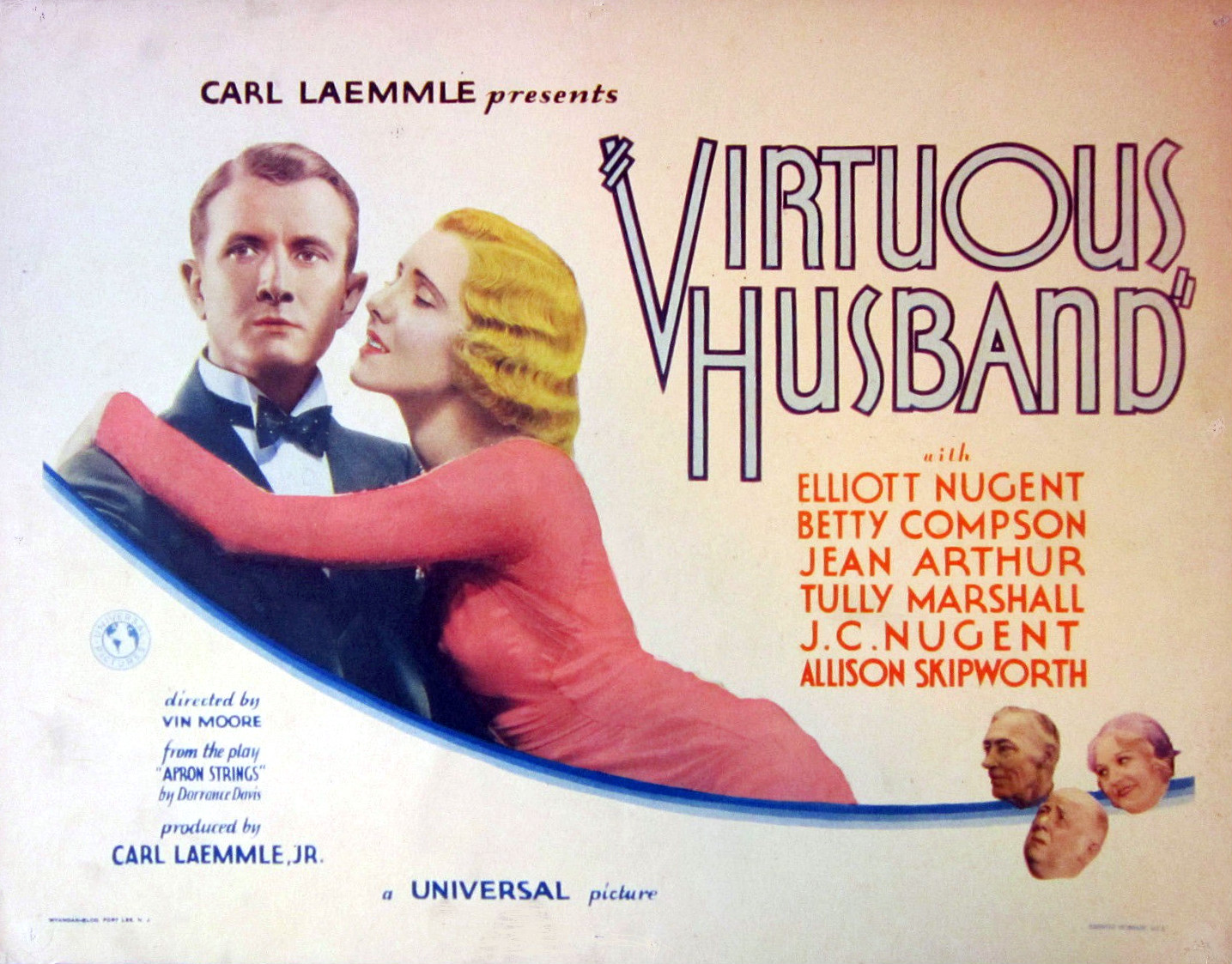 Lobby card for the 1931 film The Virtuous Husband with Elliott Nugent and Jean Arthur.